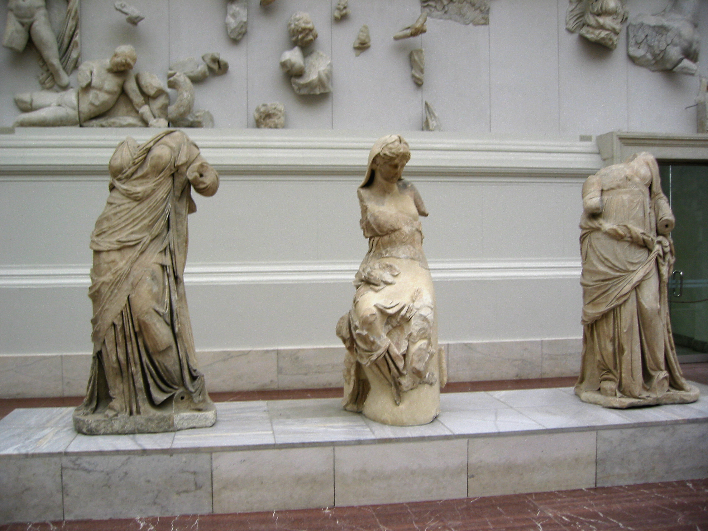 Object in the Pergamonmuseum, Berlin.